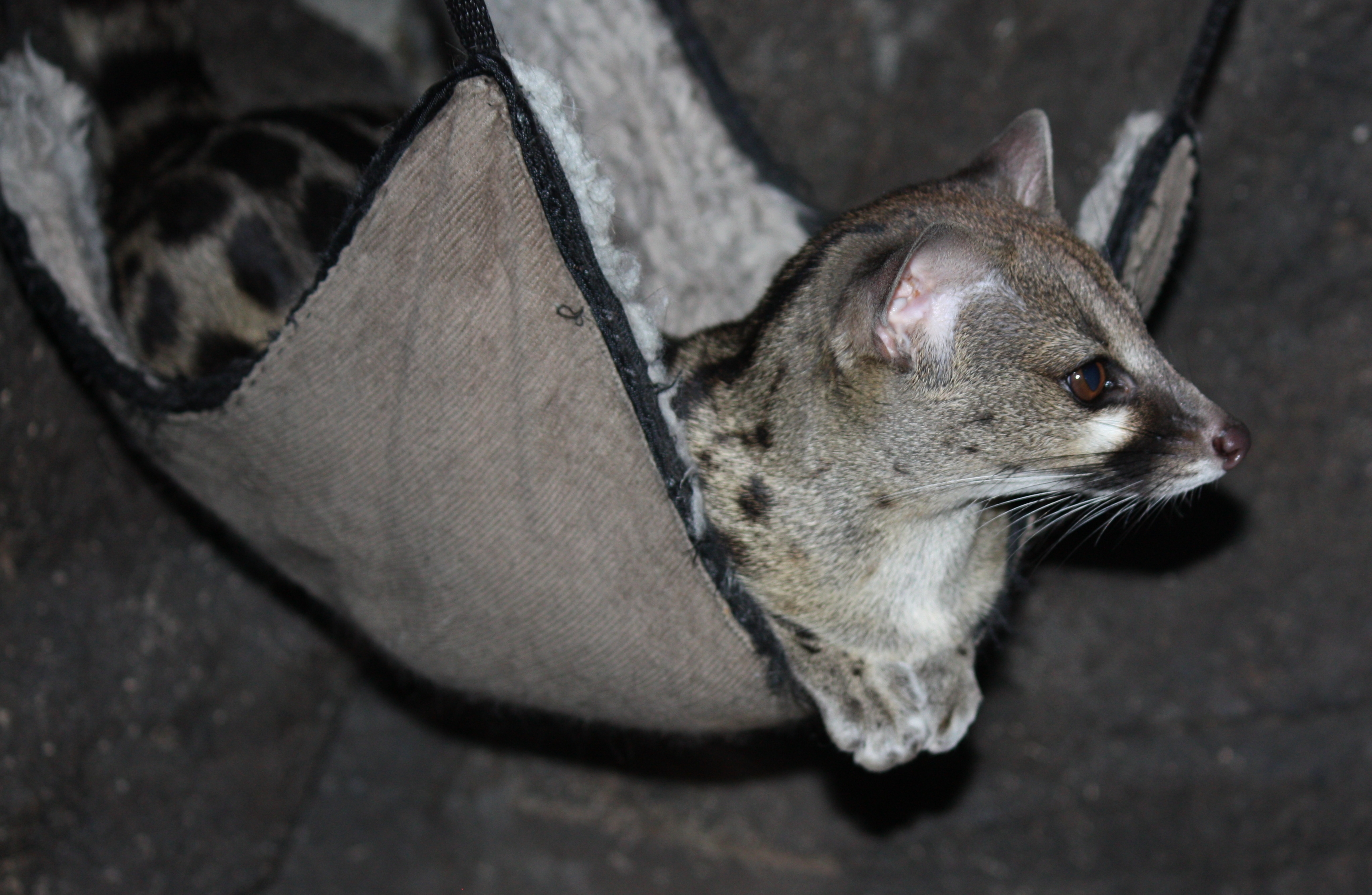 Large Spotted Genet Genetta tigrina at Cincinnati Zoo